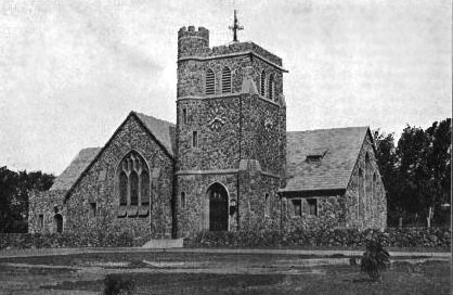 Makawao Union Church, also known as the Henry Perrine Baldwin Memorial Church was built in 1917. It was designed by architect Charles William Dickey, whose parents are buried in the associated cemetery. It was placed on the U.S. National Register of Historic Places in 1985. It is located in Makawao, Maui, Hawaii. Henry Perrine Baldwin founded agricultural conglomerate Alexander and Baldwin.